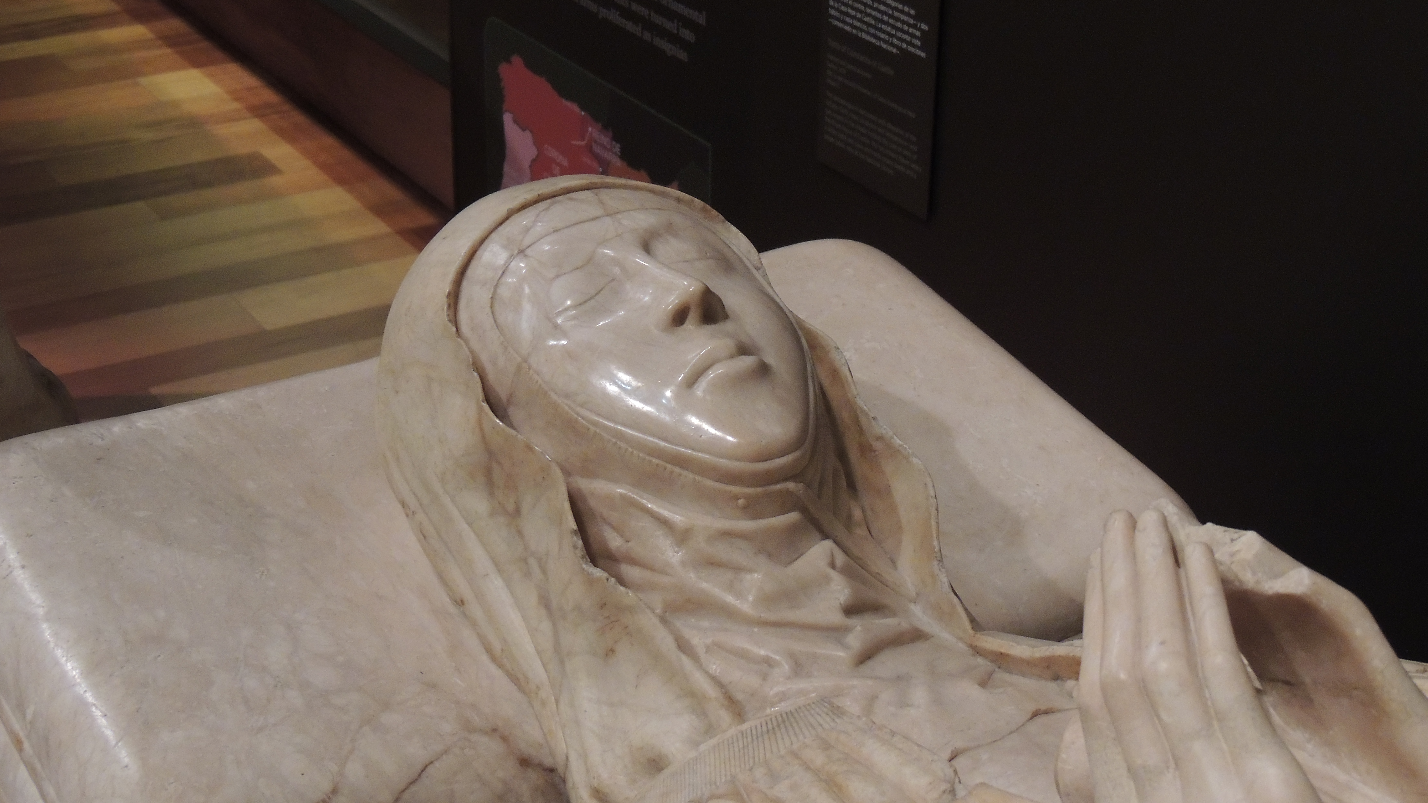 Sarcophagus of Constance of Castile Eril (before 1405–1478), granddaughter of Peter I.